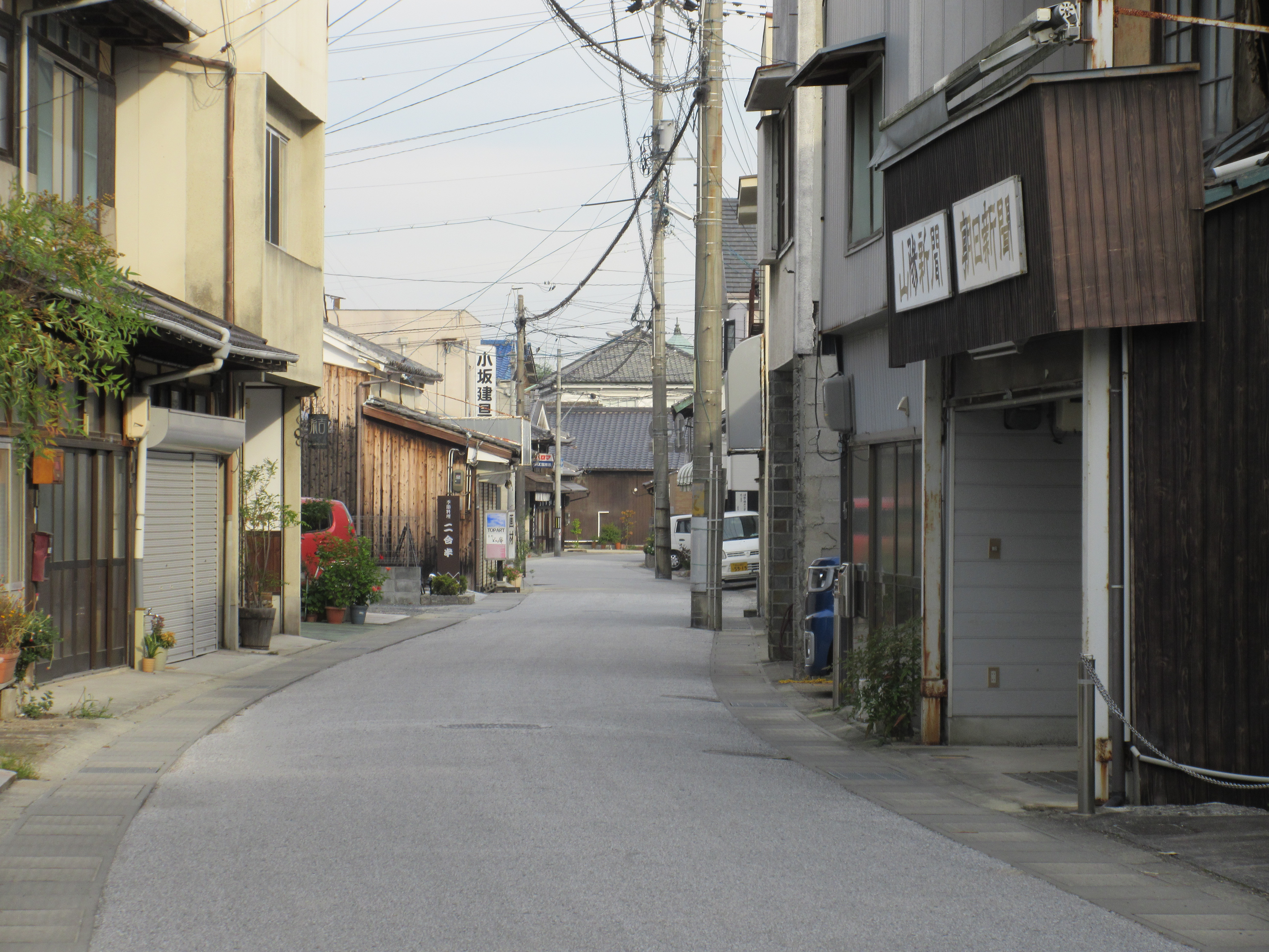 soja syotengai